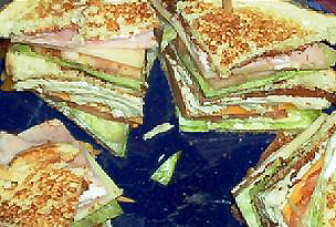 Club Sandwich. I took this picture on May 19, 2006 at Dinah's Diner in Los Angeles